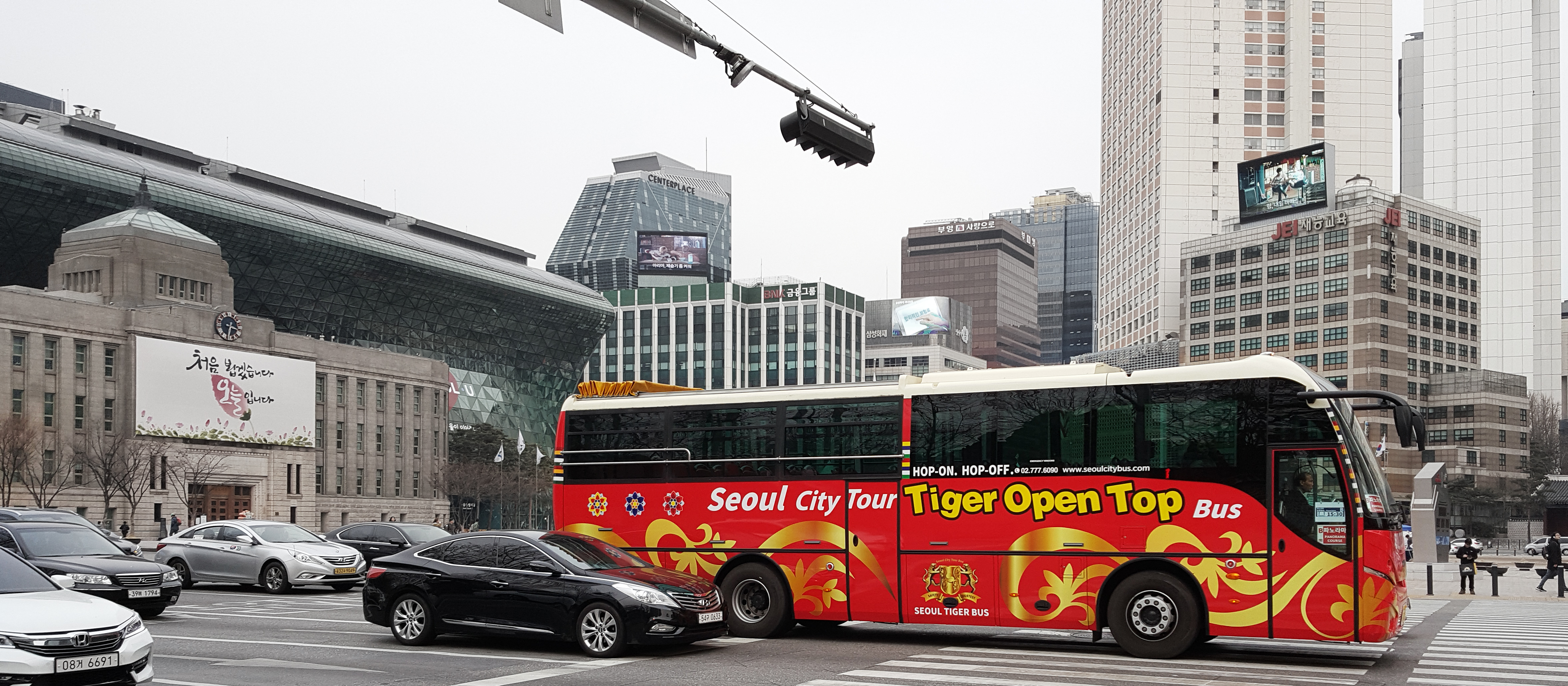 Seoul Tiger Open Top Bus